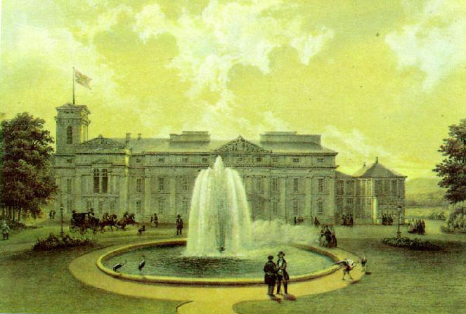 Eastern Wing of Verkiai Palace. 1848. Lithograph.